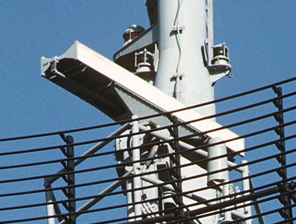 A sailor inspects the SPS-49 air-research radar antenna aboard the guided missile frigate USS SAMUEL B. ROBERTS (FFG-58) while the ship is in dry dock for temporary repairs. The frigate was damaged when it struck a mine while on patrol in the Persian Gulf.